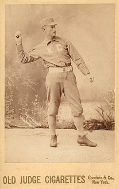 Tobacco Card of Jim Conway of the Kansas City Cowboys of the American Association.